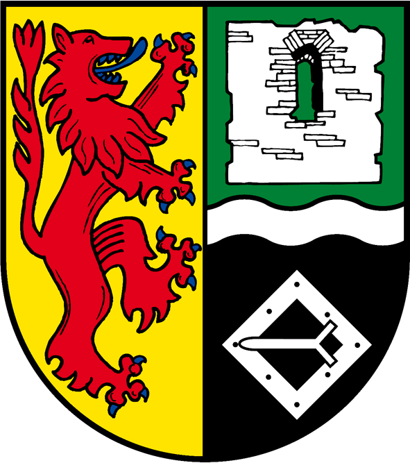 Coat of arms of Woppenroth